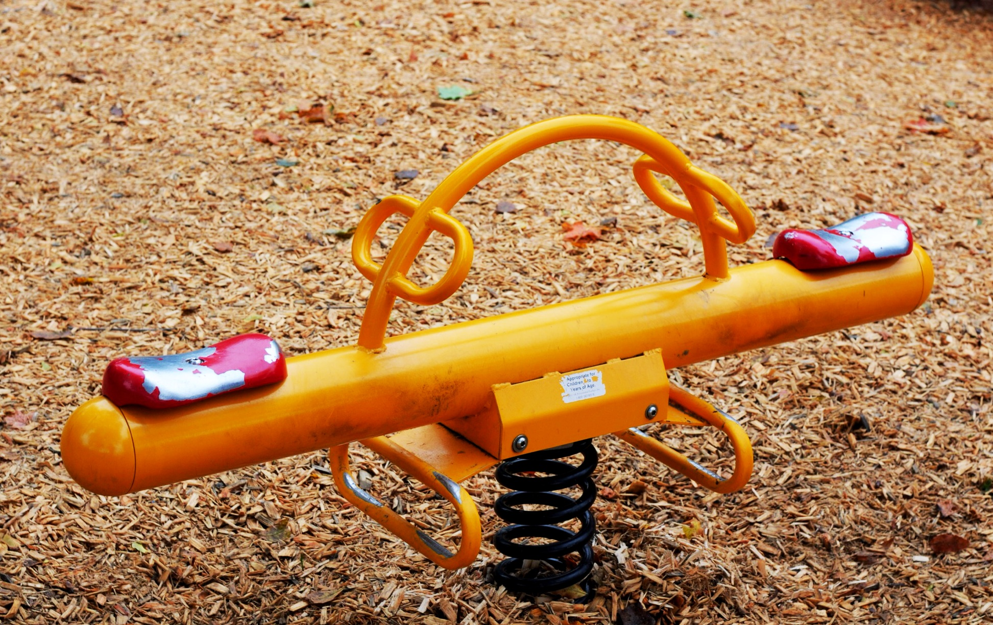 A seesaw or teeter-totter in a children's playground in Ottawa, Canada.